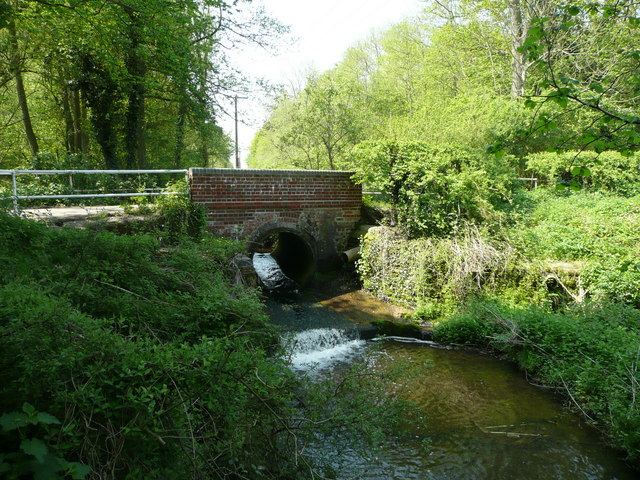 Admoor Bridge Taking Admoor Lane over the River Bourne, with Holly Copse to the left and Admoor Copse to the right.